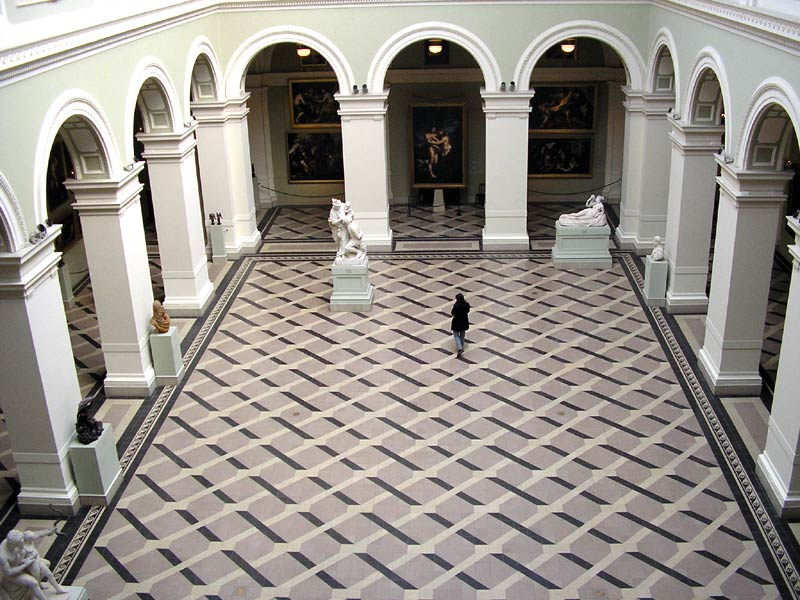 The Palace of Arts, Budapest